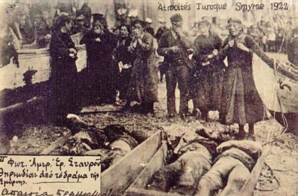 Smyrna massacre, 1922. Hellenic families crying for their relatives.